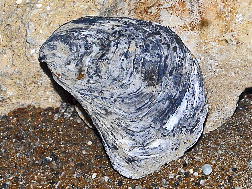 Fossil shell of Neopycnodonte navicularis , on display at Museo Paleontologico Lai, Ceriale, Savona, Italy